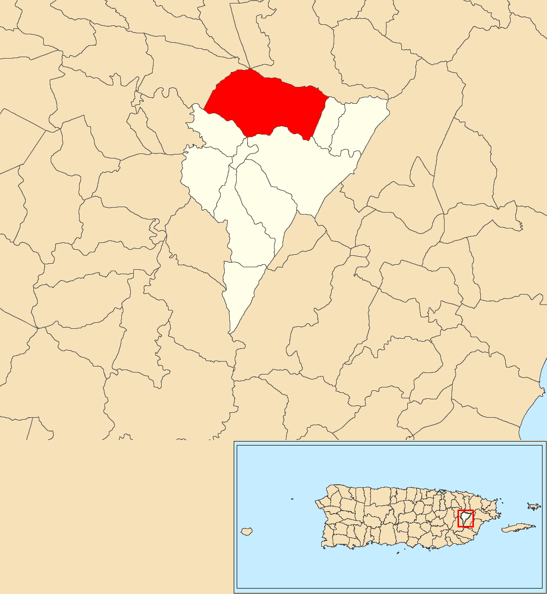 Gurabo Abajo, Juncos, Puerto Rico locator map